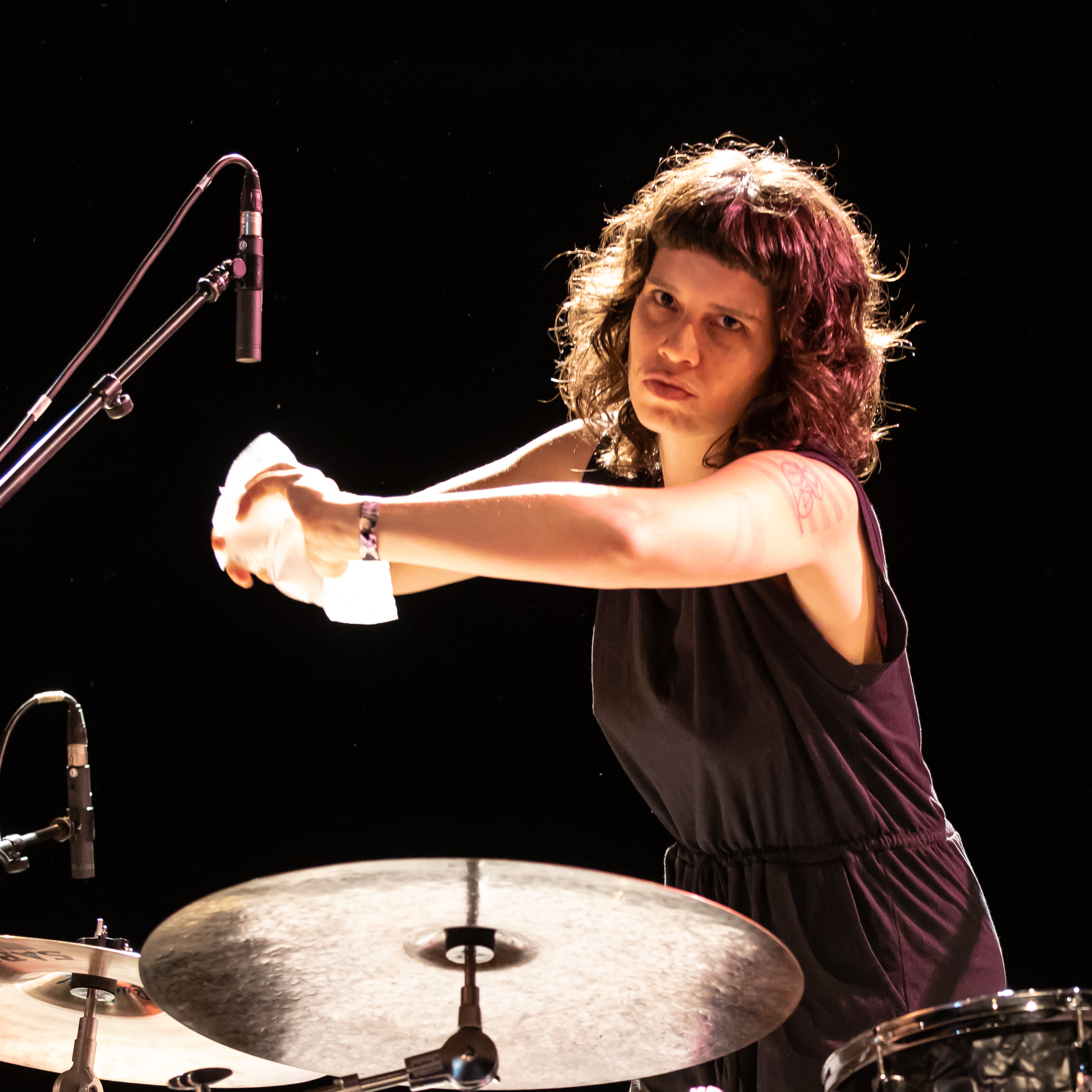 Jazz musician Mariá Portugal at the Moers Festival 2019